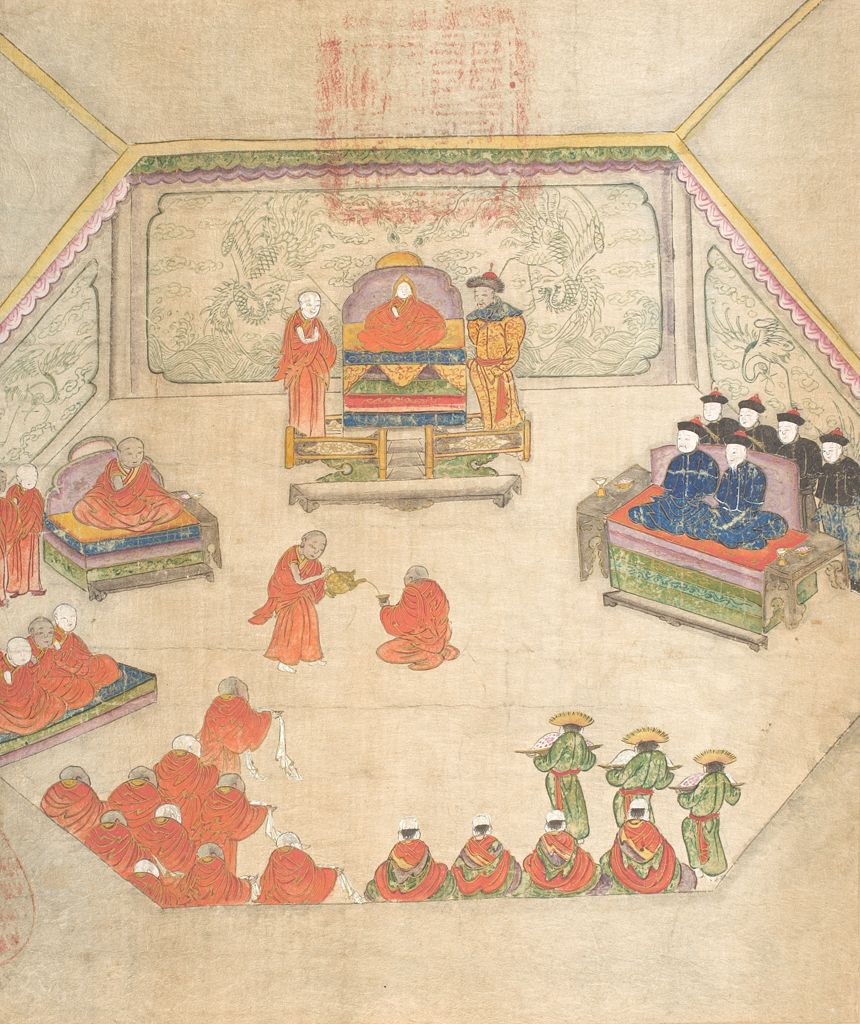 Finding a Dalai Lama (8/8), Qing Dynasty, probably 9th dalai-lama around 1808[1]